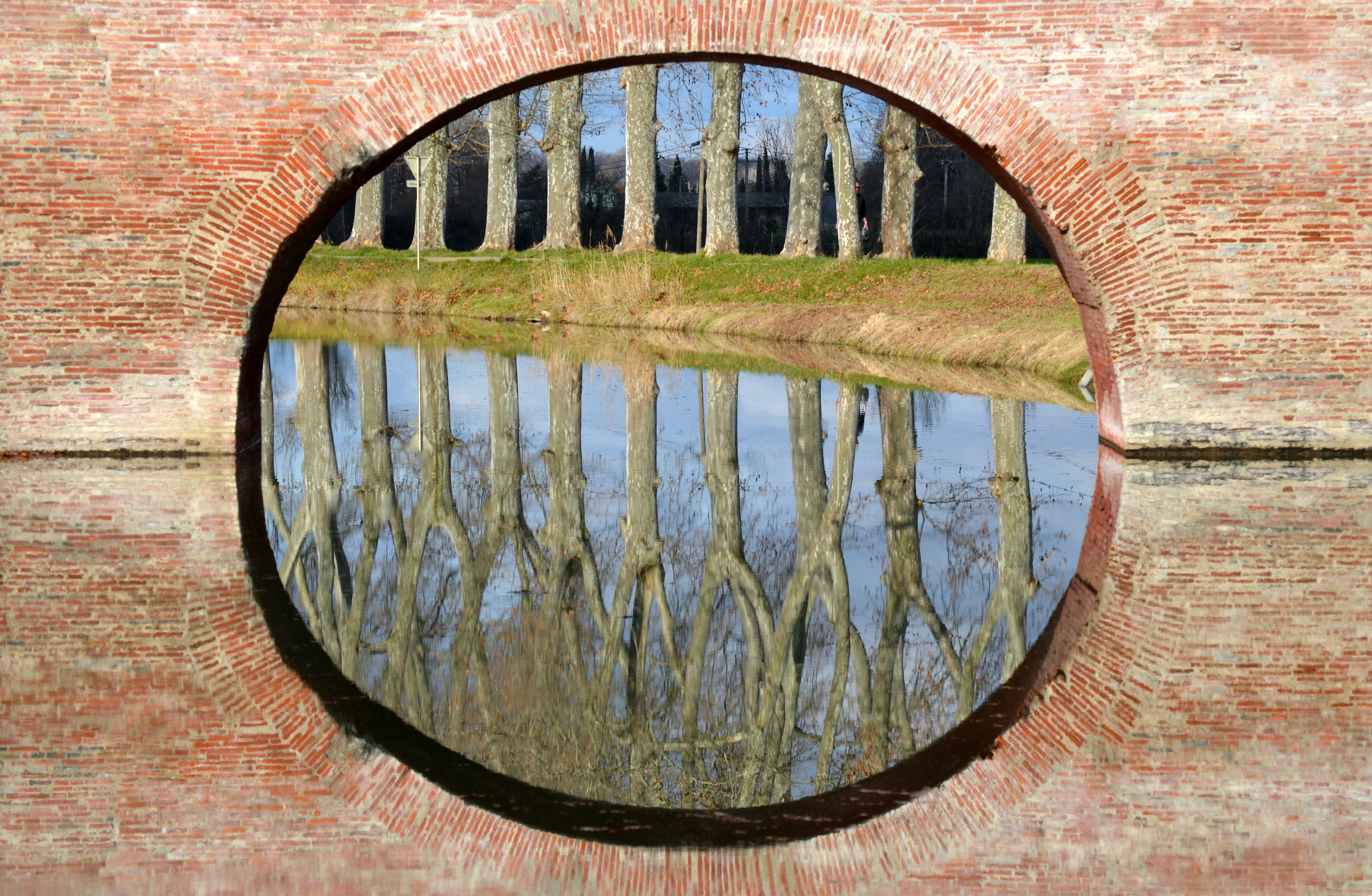 Bridge of Deyme, Canal du Midi - Pompertuzat (Haute-Garonne), France .